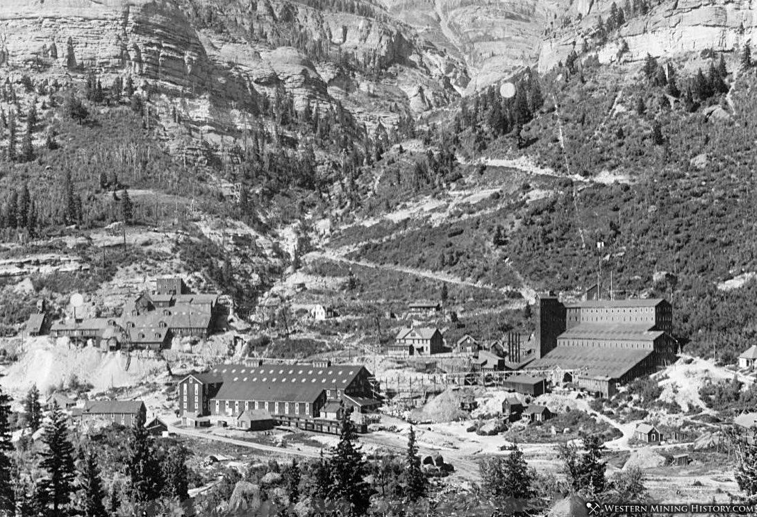 Smuggler Union mills at Pandora ca. 1910-1920. Mills for the Liberty Bell and Smuggler-Union mines, two of the district's largest mines, were built at Pandora. Aerial Trams brought ore from the mines thousands of feet up the mountain down to the Pandora mills. Milling at Pandora was a large enough industry to justify the construction of a spur line of the railroad from Telluride. Pandora was the primary milling center for the entire district by the late 1890s. The Pandora Mill, previously one of the Smuggler Union mills, still stands at Pandora. The mill was constructed in 1920 to replace the previous Smuggler mill that had burned down. The mill had various periods of activity but was unusual in that it was one of the only gold mills in the country to stay open during World War II. The mill was allowed to remain open during the war due to the lead and zinc content of the ores processed there. Lead and zinc were needed for the war effort. The Pandora Mill ceased operations in 1978. Today Pandora is a ghost town with little left but the mill.